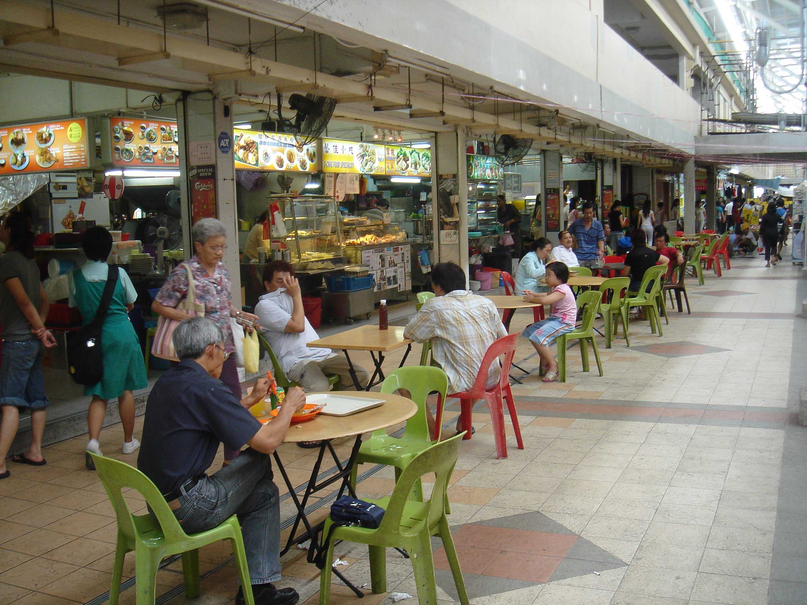 An open-air kopitiam (coffee shop) in Bendemeer, Singapore.